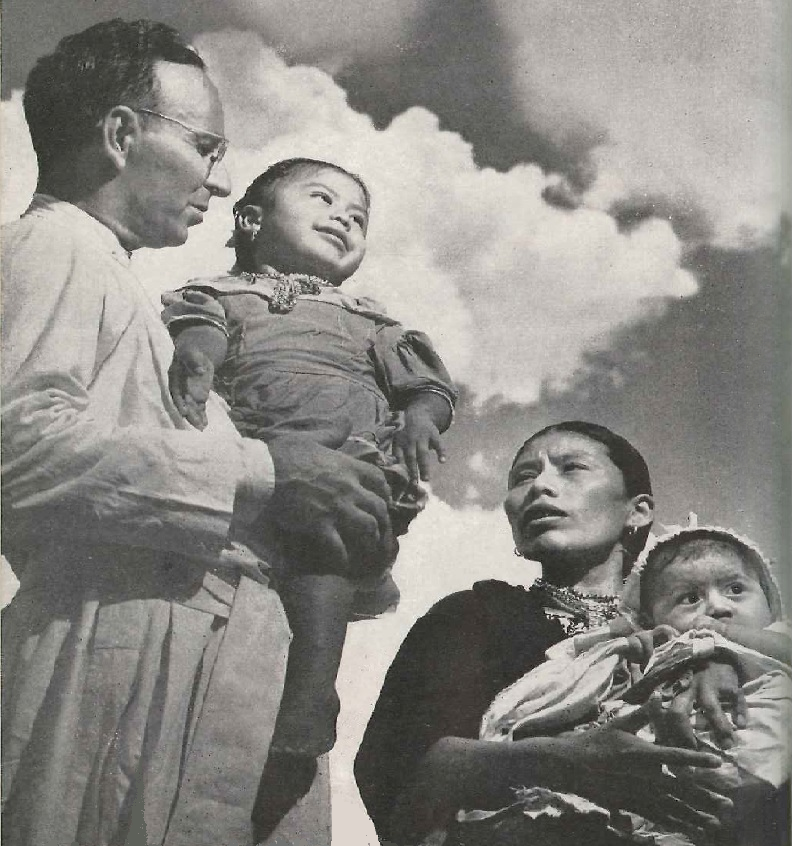 Jesuit William A. Ulrich with a Maya woman in Toledo District, Belize, CA, c. 1955